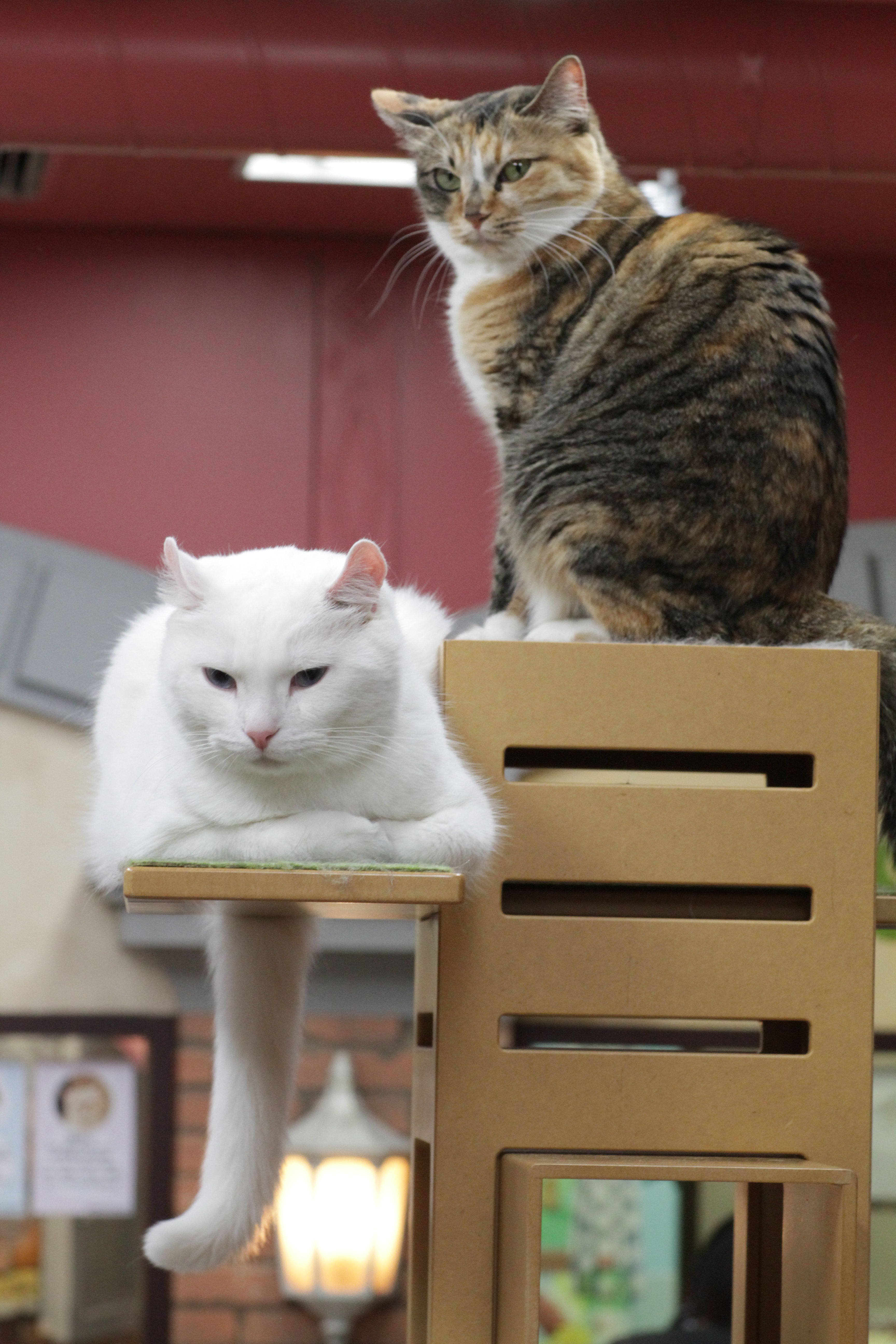 They've done a cool pose for me. Thank you, you two! The cat of white one: Name: Chai Type: Half American Curl Gender: Male The another cat: Name: Sachiko Type: Janapese Cat Gender: Female かっこいいポーズを決めてくれました。 白猫さんの情報： 名前：チャイ 種類：アメリカンカールハーフ 性別：男の子 シマの猫さん情報 名前：さちこ 種類：日本猫 性別：女の子 Canon EOS 7D + Canon EF 85mm F1.2L II USM